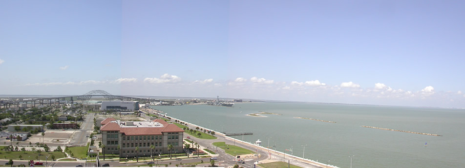 Corpus Christi, Texas. Bay view. Looking out my hotel window. A composite of three pictures.